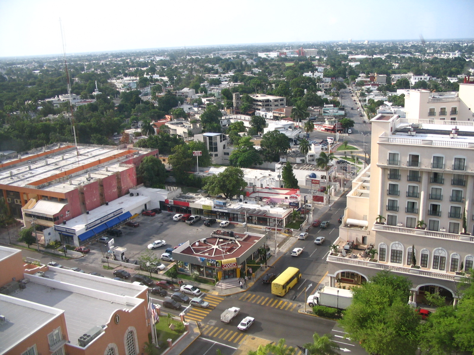 Mérida, Yucatán, looking north from the 16th floor of Hyatt.